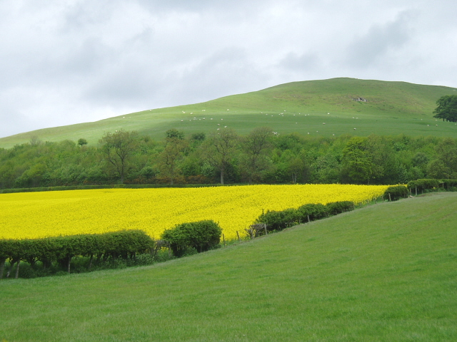 Pasture and rape field. Crop of rape in full flower on the lower, southern, slope of Minto Hill. The higher slopes of the hill (in the next square to the north) provide pasture for sheep.